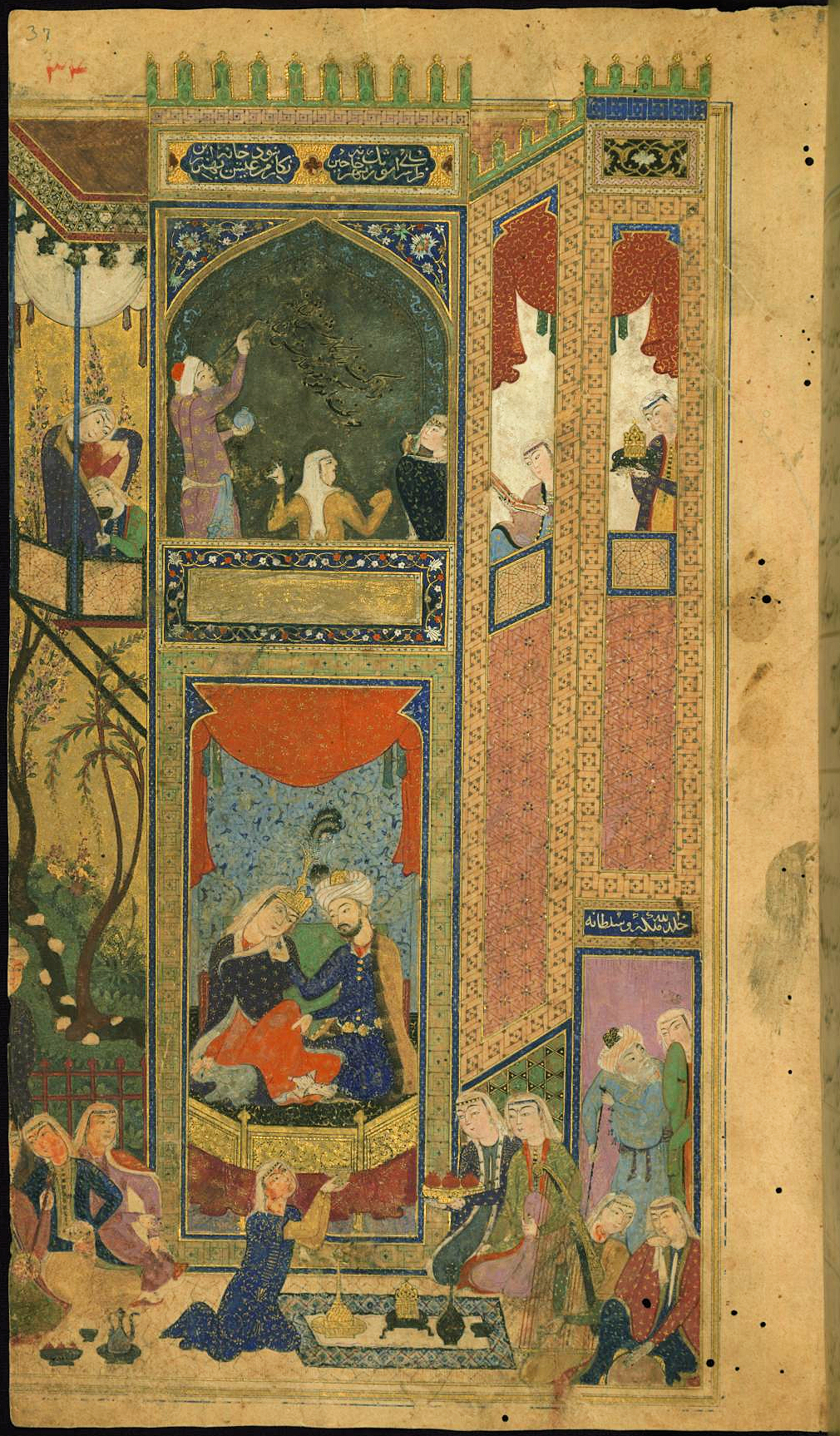 This folio from Walters manuscript W.648 depicts a court scene with Timur and his maiden from Khwarezm.